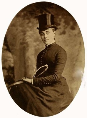 Photo